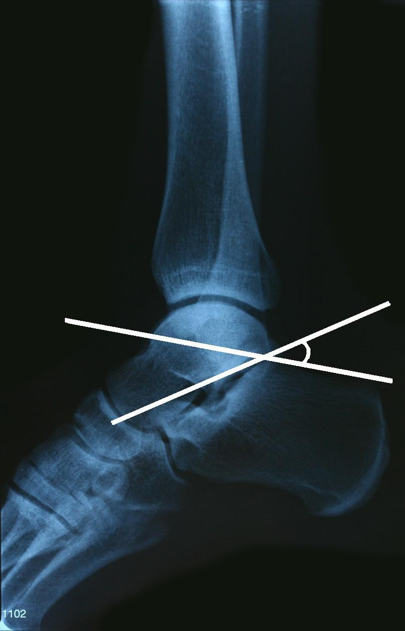 Boehler's angle, of some diagnostic and prognostic value in a calcaneus fracture